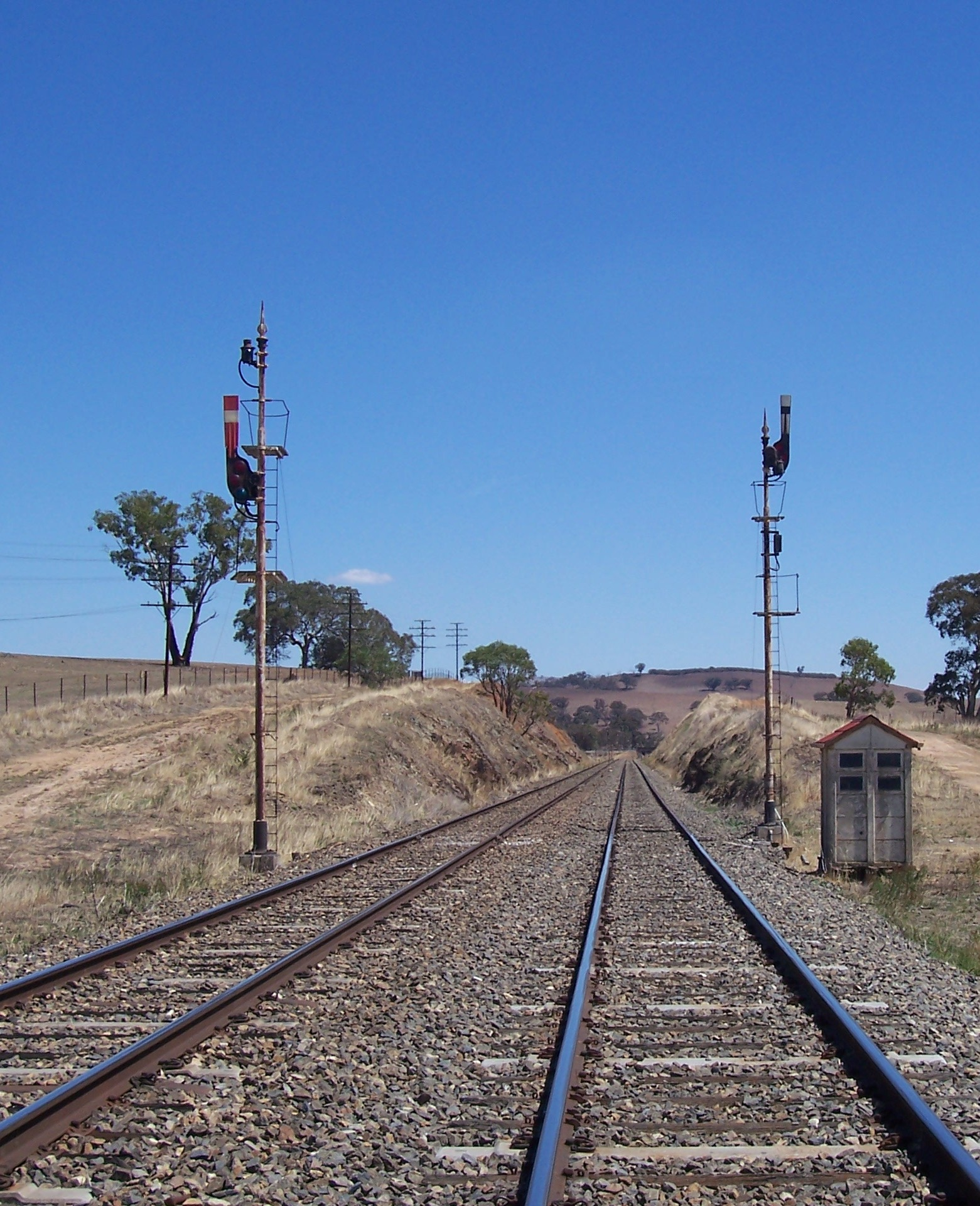 New South Wales, upper quadrant semaphore signals. The one on the left is a 'distant' signal (fixed top green light) The one on the right (shown from the rear) is an automatic 3 position semaphore (arm at top with lower lamp unit) Both signals were replaced with single aspect colour light type signals in 2010. Location is near Goulburn, NSW, Australia